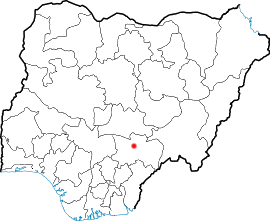 Makurdi, Nigeria Location Map, Adapted from Locator Map Aba-Nigeria.png which was made by User:Civvi at Wikimedia Commons